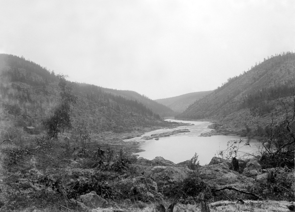 Ivalojoki River gold rush area, Inari, Finland.